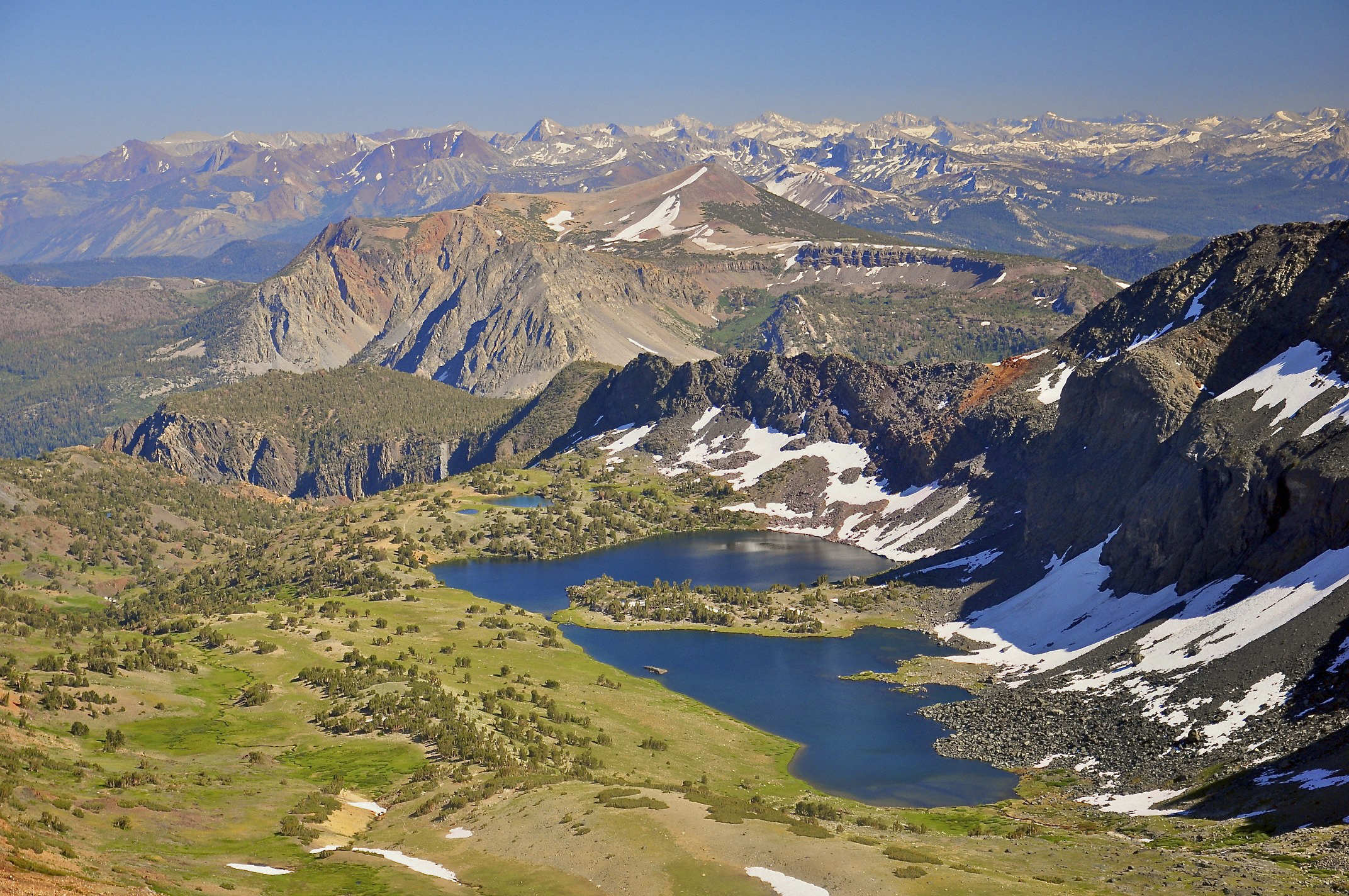 The view goes on forever after topping out at Koip Peak Pass, which is sort of a back door out of Yosemite and into the Ansel Adams Wilderness. The prominent red peak beyond the lakes is San Joaquin Mountain, which hides Mammoth Mountain ski area behind it to the south.